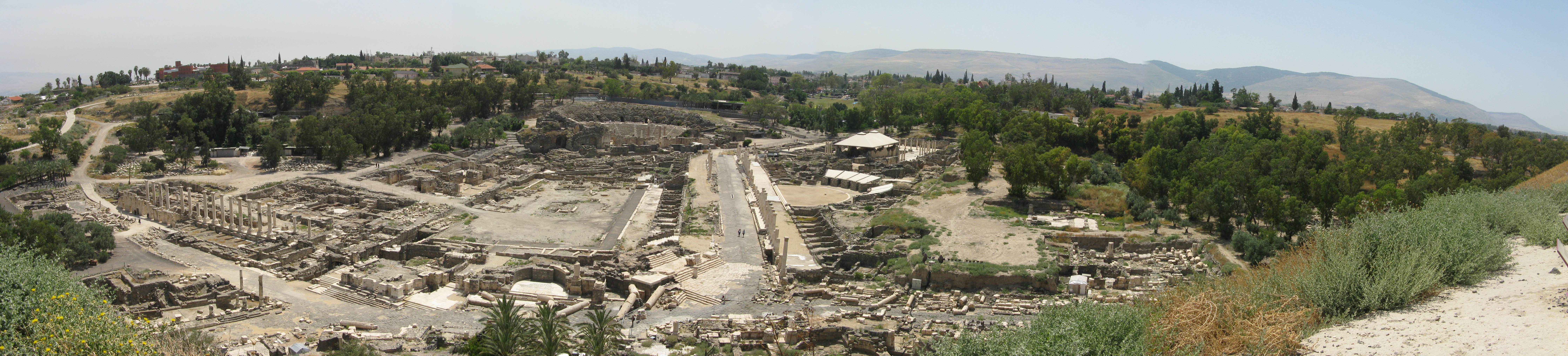 The ancient Scythopolis - panorama.